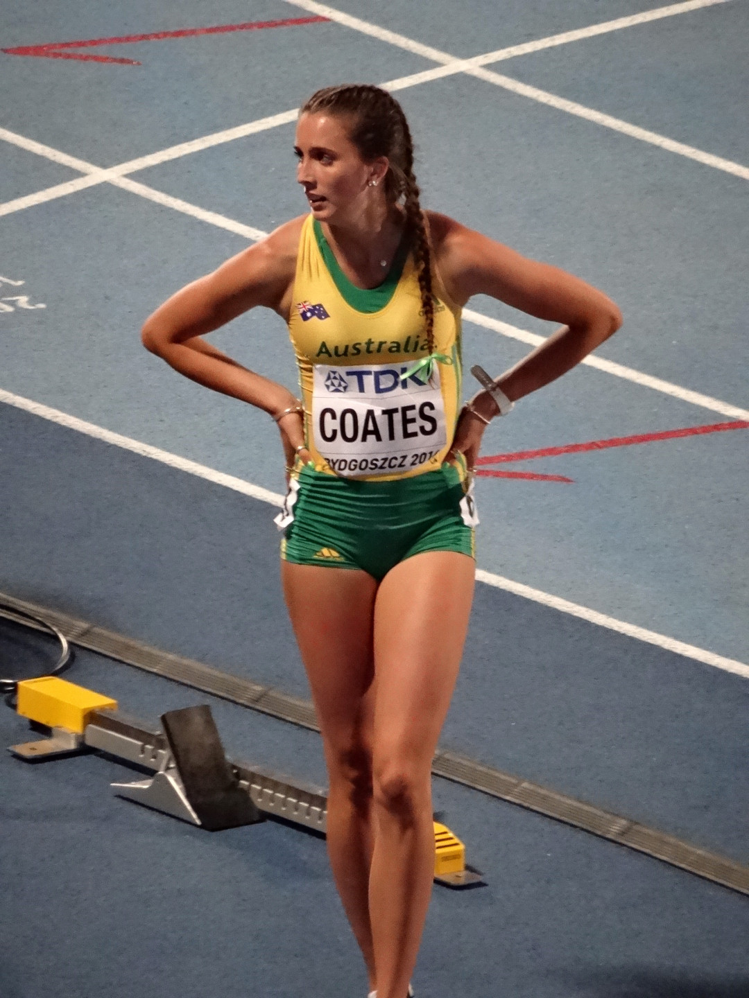 2016 IAAF World U20 Championships in Bydgoszcz, 200m women semi-final